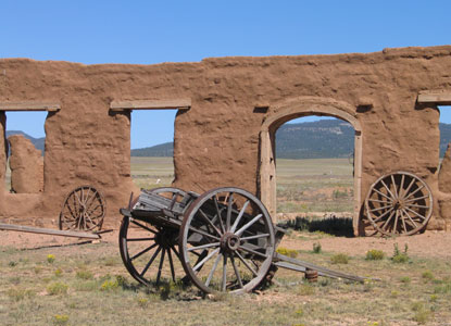 wagon in the mechanics corral of Fort Union National Monument, New Mexico